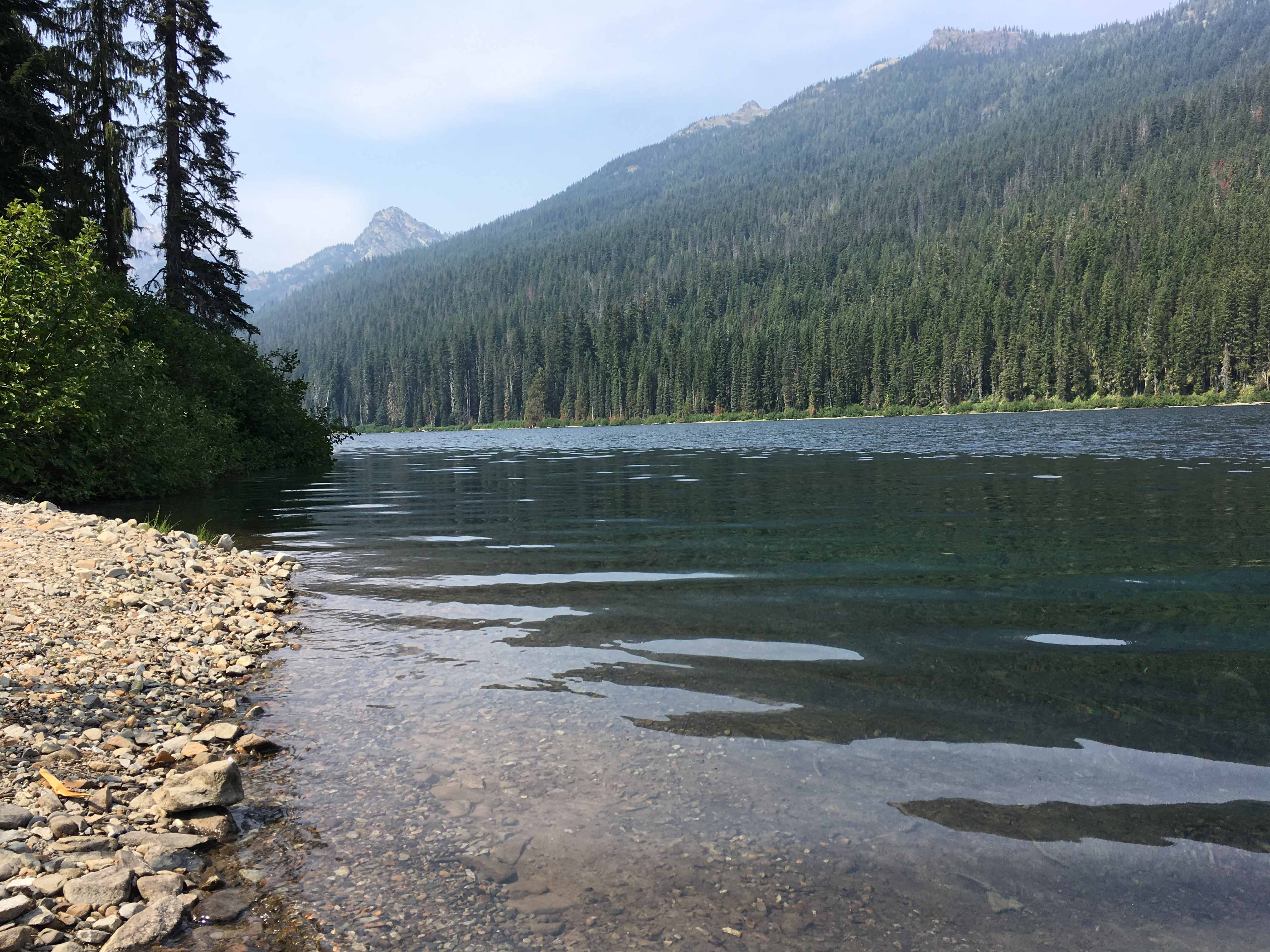 A view from the western shore of Lake Waptus.